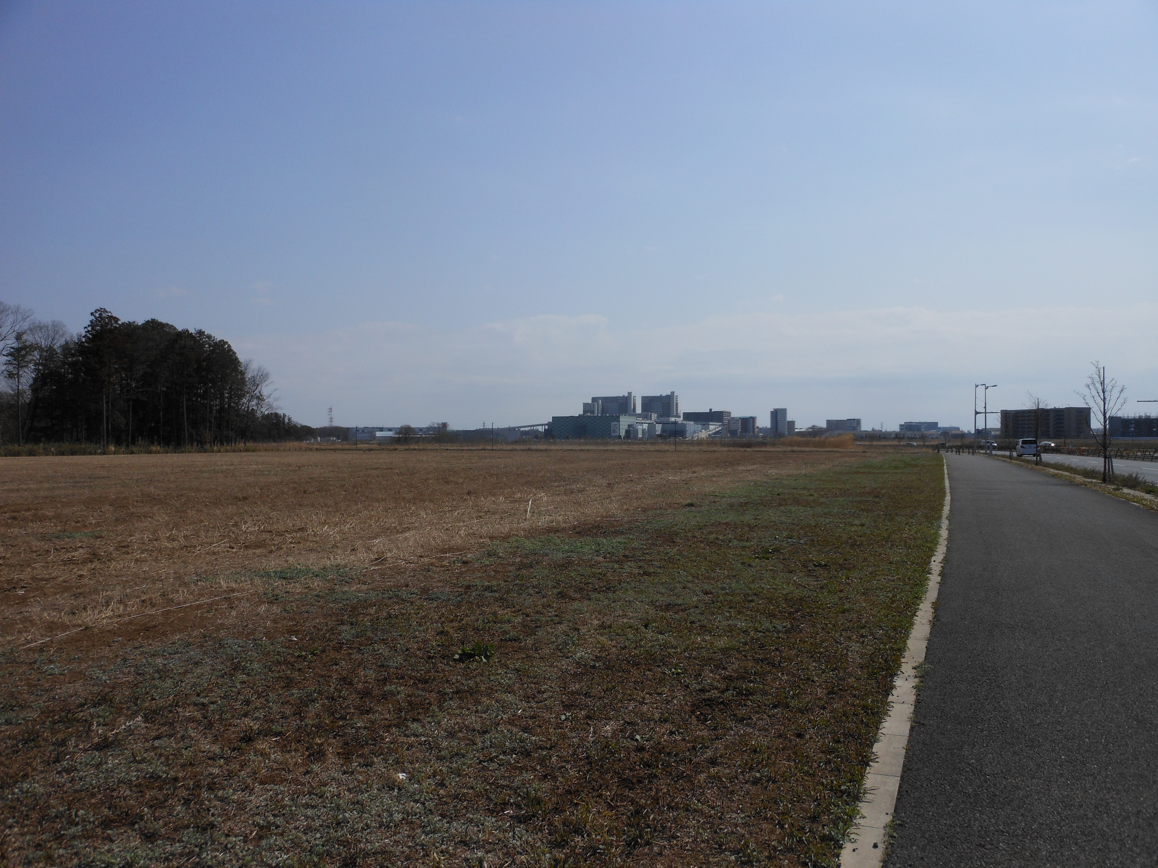 This is a landscape of Gakuennomori 2 chome, Tsukuba city, Ibaraki prefecture, Japan.